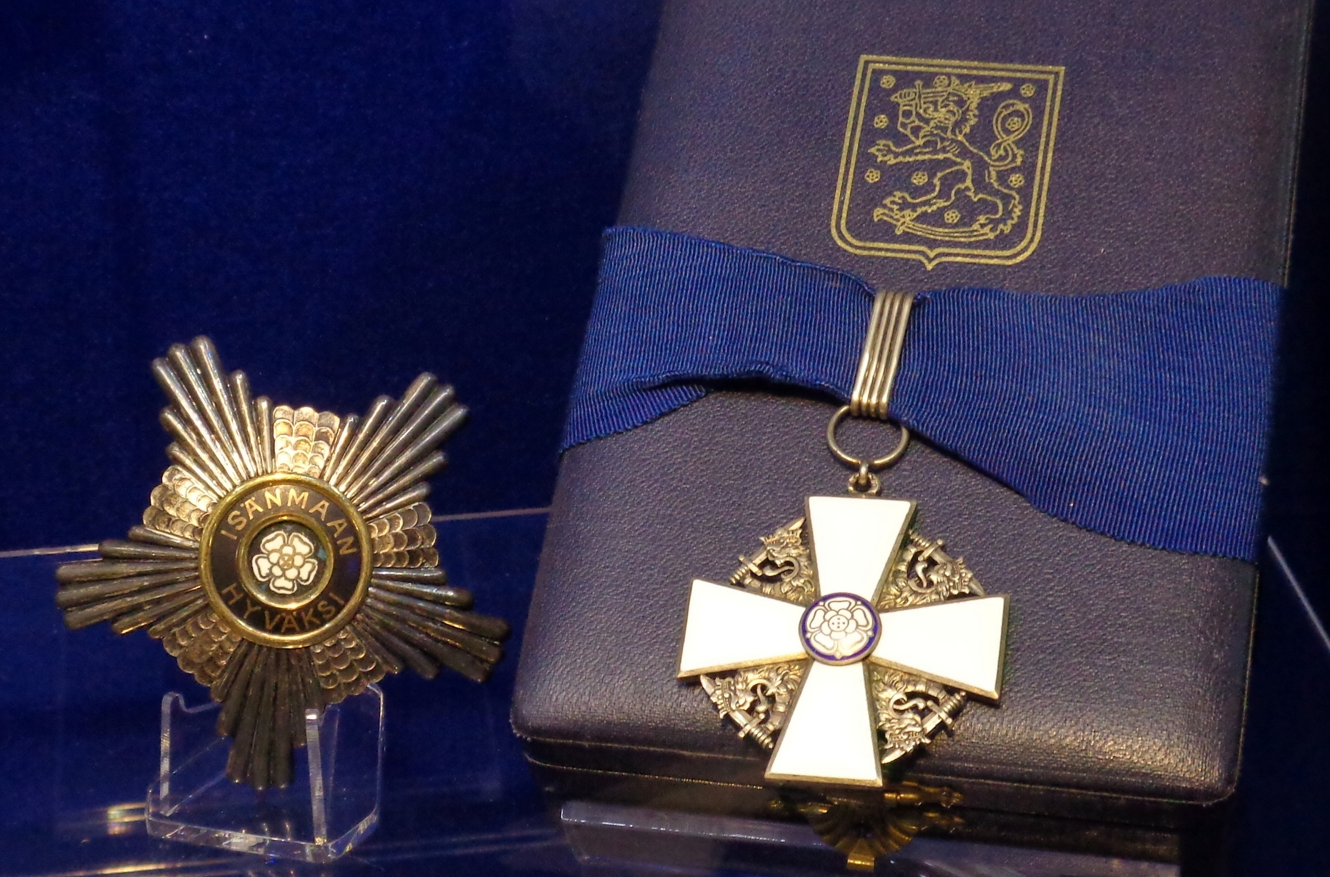 Order of the White Rose of Finland, insignias of Commander 1st class. Finland. The exhibition of the Tallinn Museum of Orders of Knighthood, Estonia.